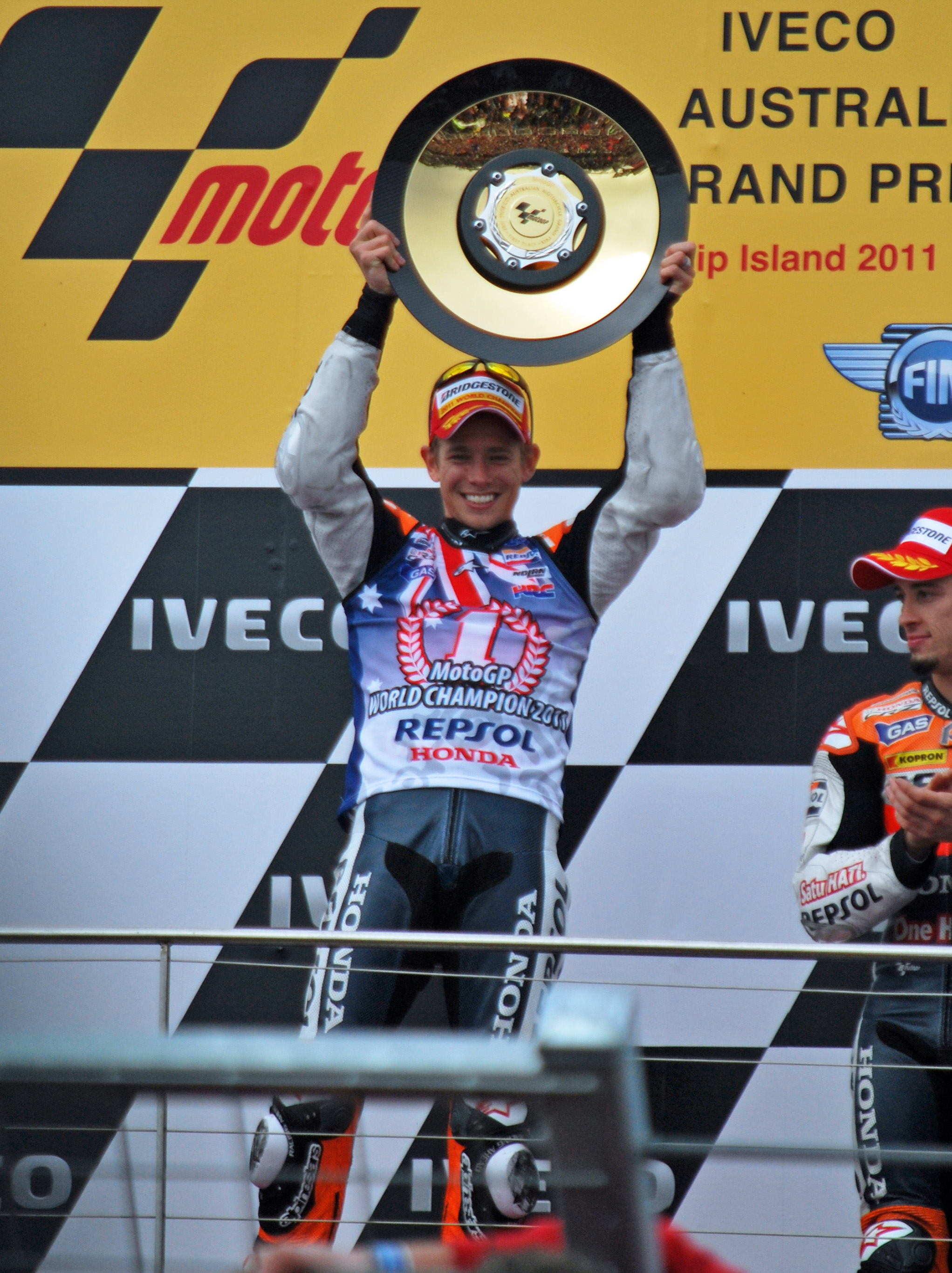 Casey Stoner, holding the trophy for first place at the Phillip Island MotoGP.